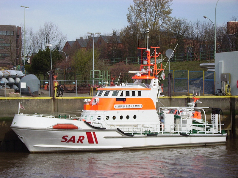 The lifeboat "Hermann Rudolf Meyer" of the German Maritime Rescue Service in Bremerhaven, Germany